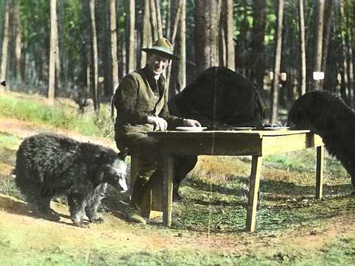 Color-applied lantern slide of Horace M. Albright in Yellowstone National Park: "What a Nat. Park will bring. (A bear dinner)".